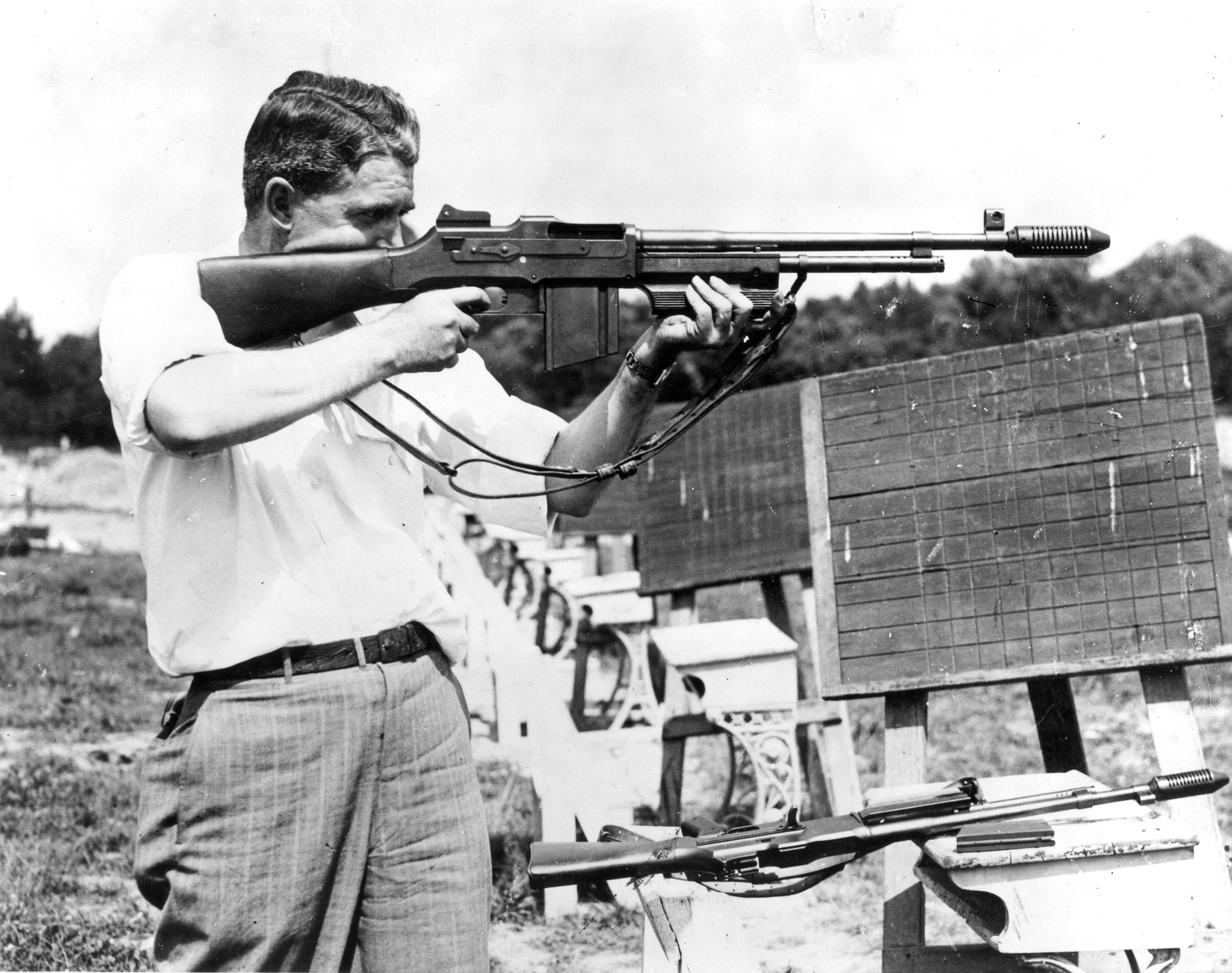 Firearms practice, in 1936.